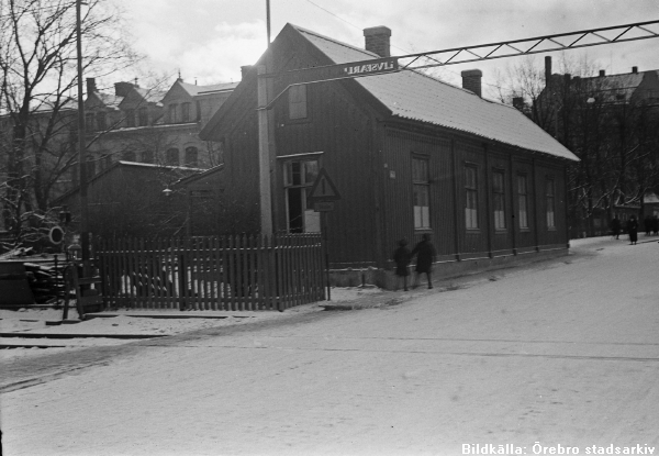 Station building at Köping-Hult railroad in Örebro, Sweden